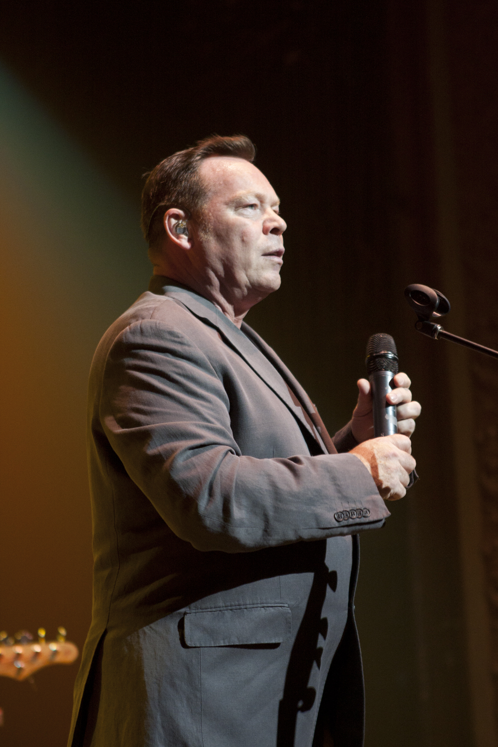 Ali Campbell's UB40 performing along with Billy Ocean and Big Mountain at the State Theatre in Sydney.